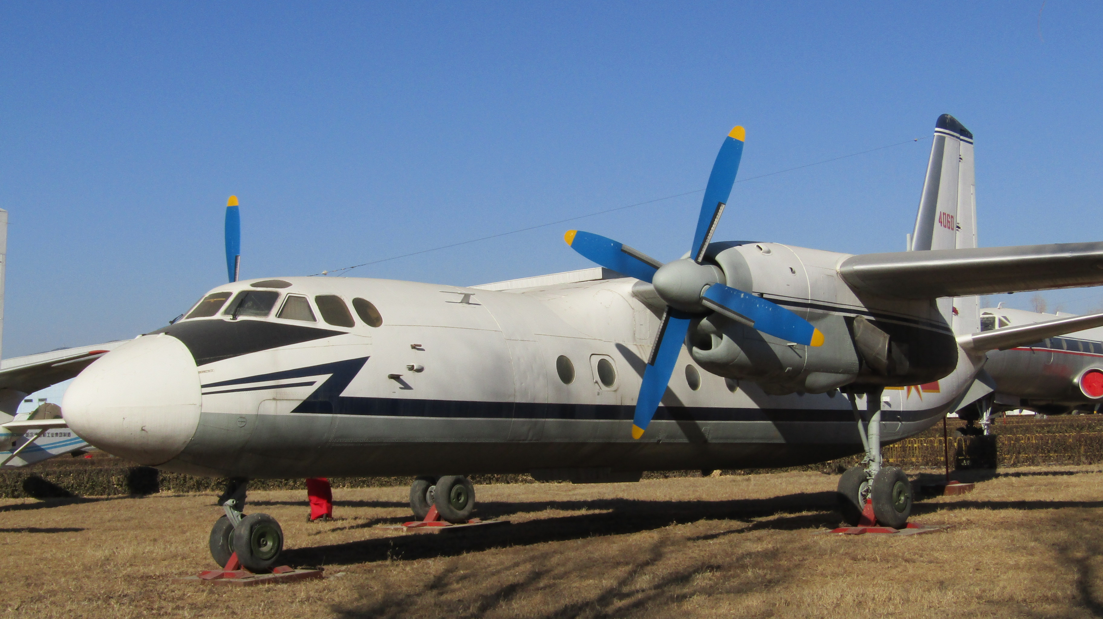 People's Liberation Army Air Force An-24RV at China Aviation Museum, Beijing